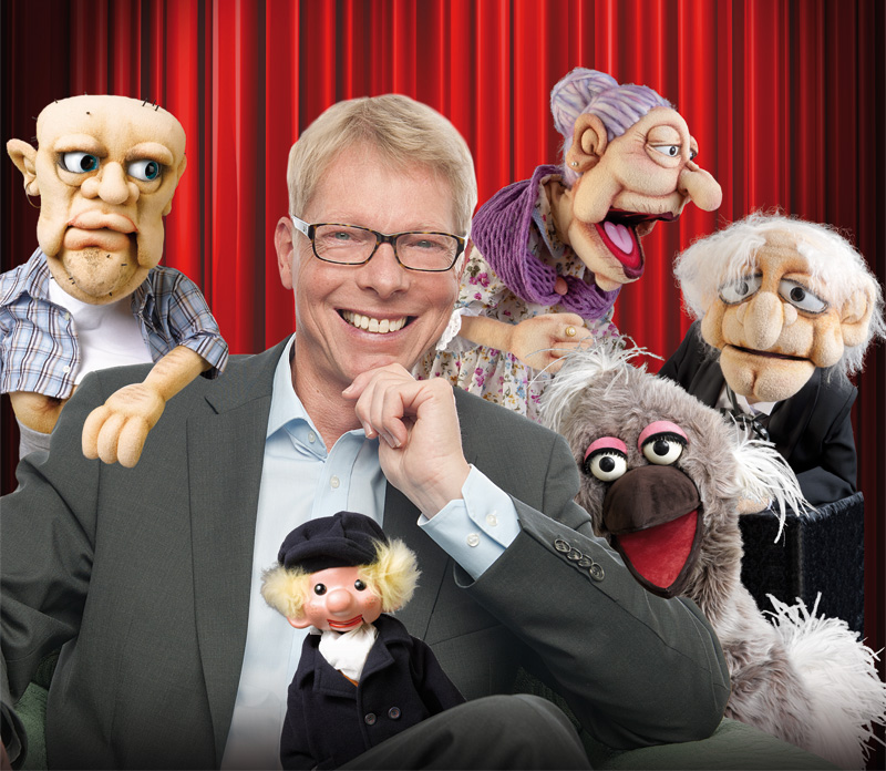 The german ventriloquist Jörg Jará with his puppets